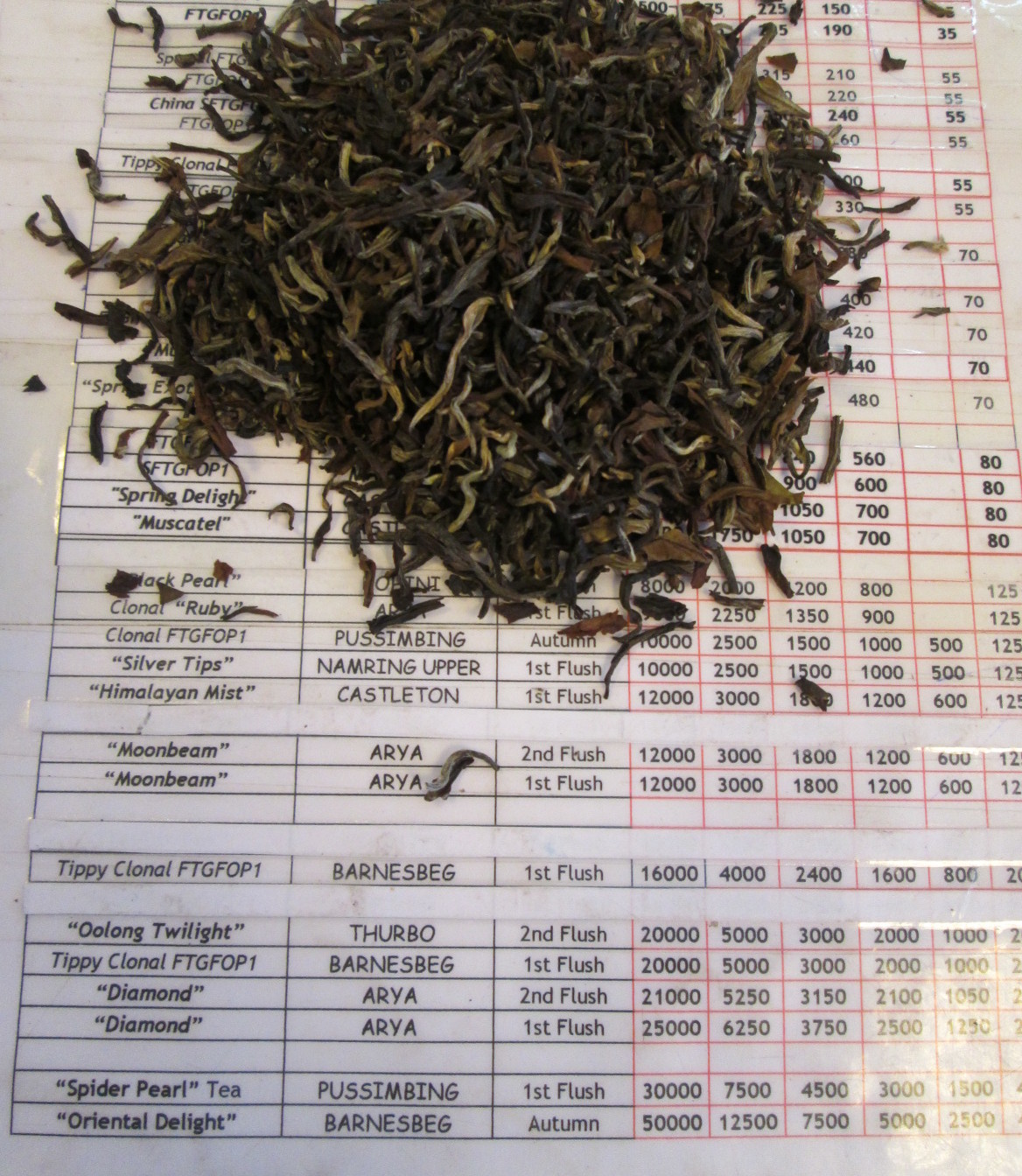 One of the costliest tea's sold in retail at "Nathmulls" on Chowrasia in Darjeeling.